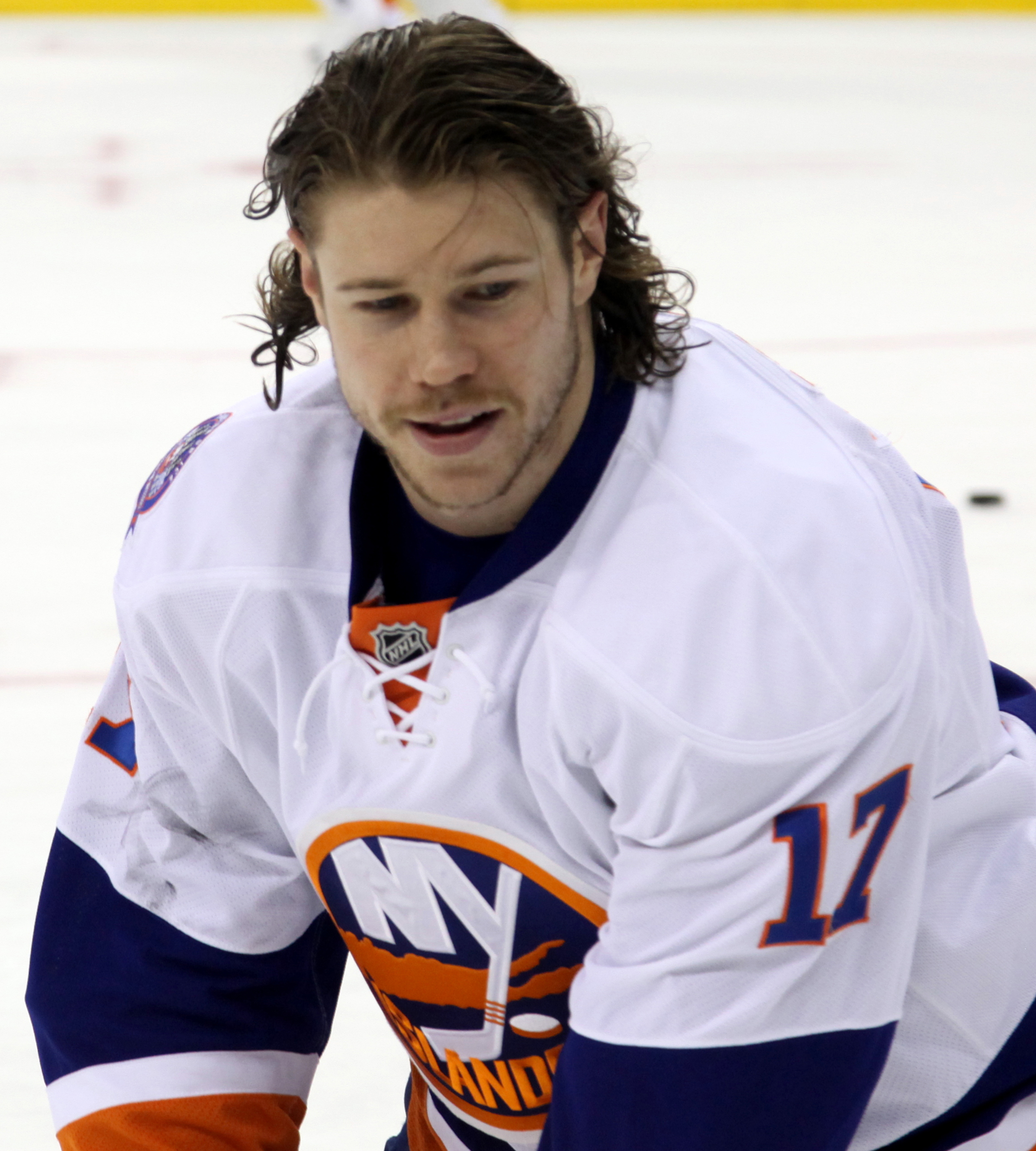 Matt Martin in January 2015.